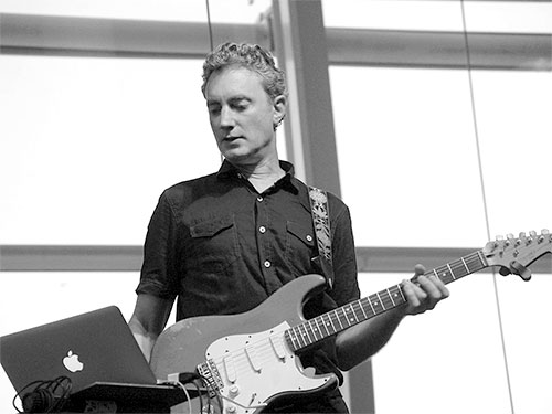 Avi Bortnick at Aarhus Jazz Festival 2014